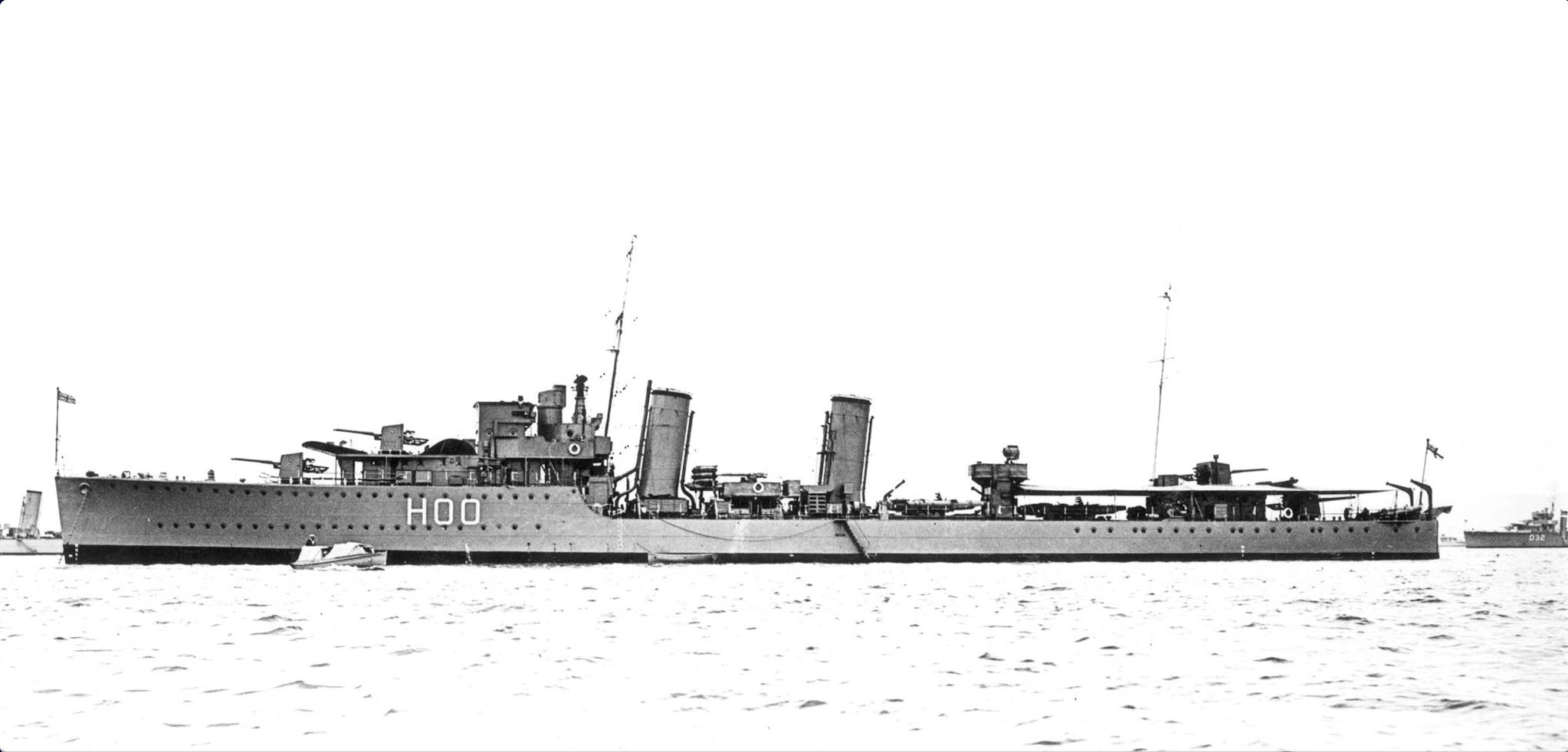 Photograph of Canadian destroyer HMCS Restigouche (H00) in her original confoguration with 4 4.7 inch guns and tall second funnel.